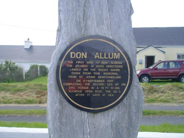 Plaque situated near Dooagh on Achill Island, County Mayo, Ireland. Text of the plaque: Don Allum the first man to row across the Atlantic in both directions landed on the rocky shore down from this memorial, from St. John's Newfoundland on 4th September 1987 completing the second leg of his epic voyage in a 19 ft. 10 ins. plywood open boat, the QE 3, after 77 days at sea.